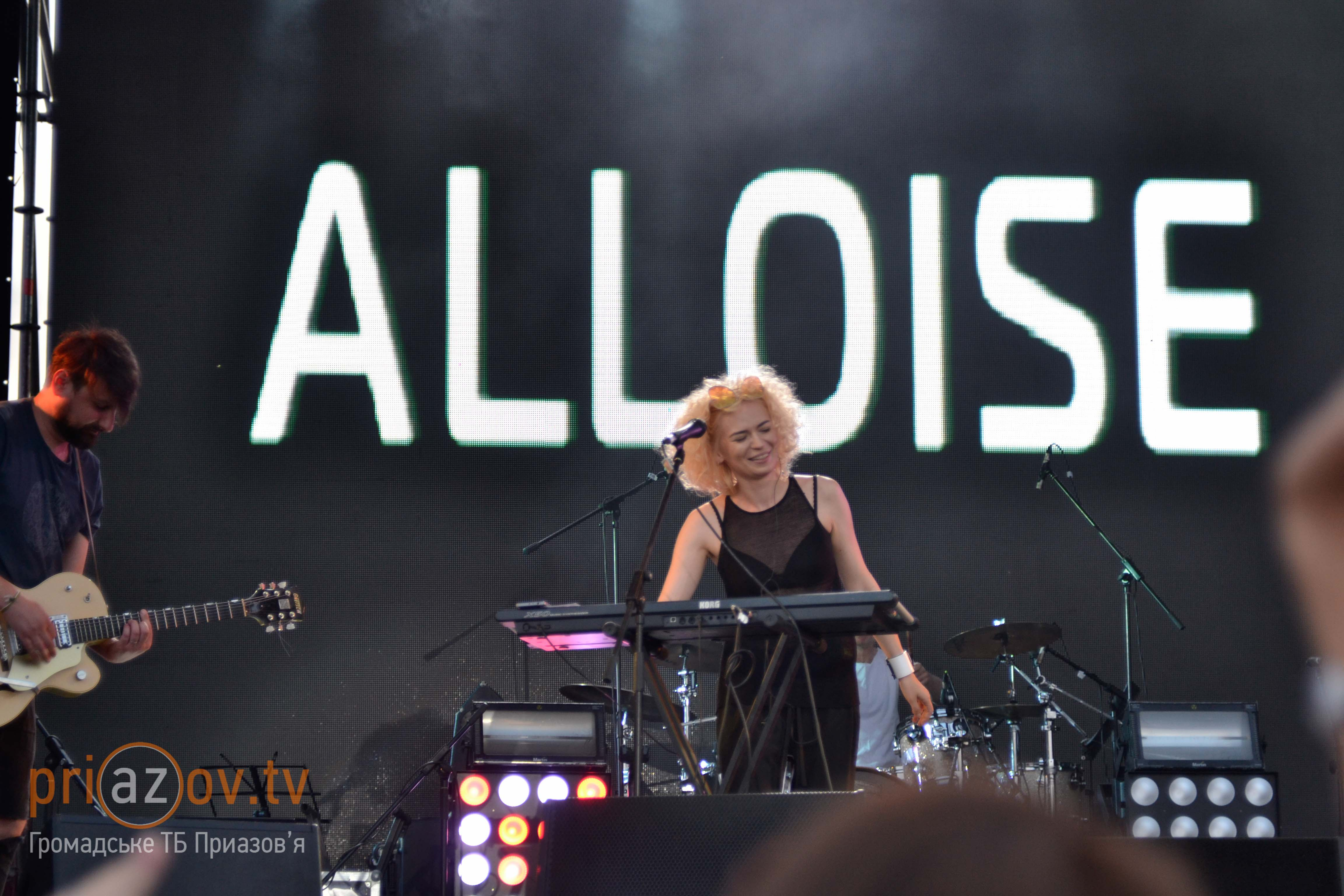 Ukrainian band ALLOISE at the MRPL City 2017 fest in Mariupol.